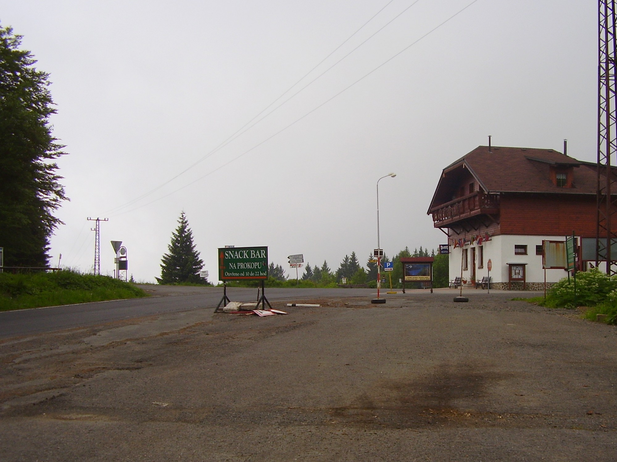 Špičácké sedlo in Šumava